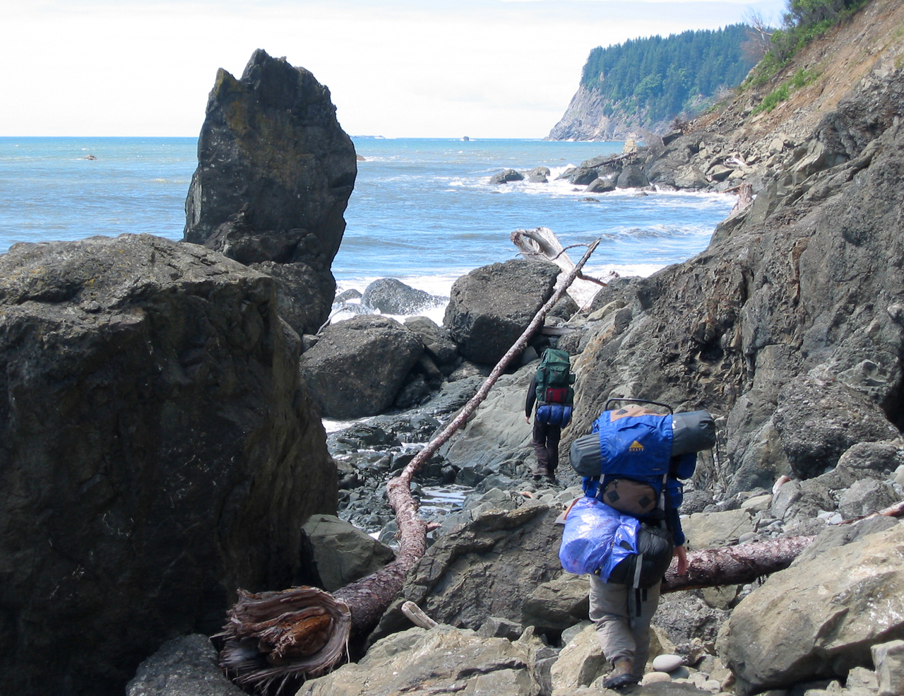 Hiking and camping in the Olympic National Park, Washington, USA